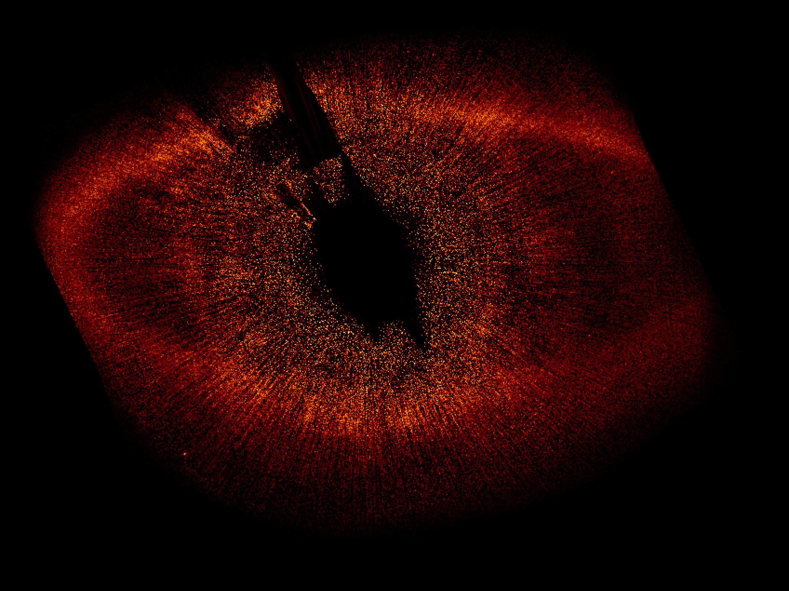 The large disk of gas surrounding Fomalhaut is clearly visible in this image. It is not centred on Fomalhaut quite as predicted, hinting that the gravity of another body – perhaps a planet – is pulling it out of shape.